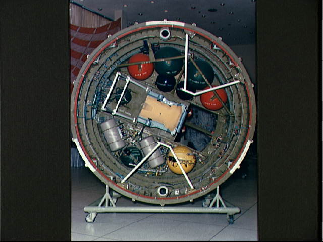 Mockup of adapter equipment section to be used on Gemini 9 space flight